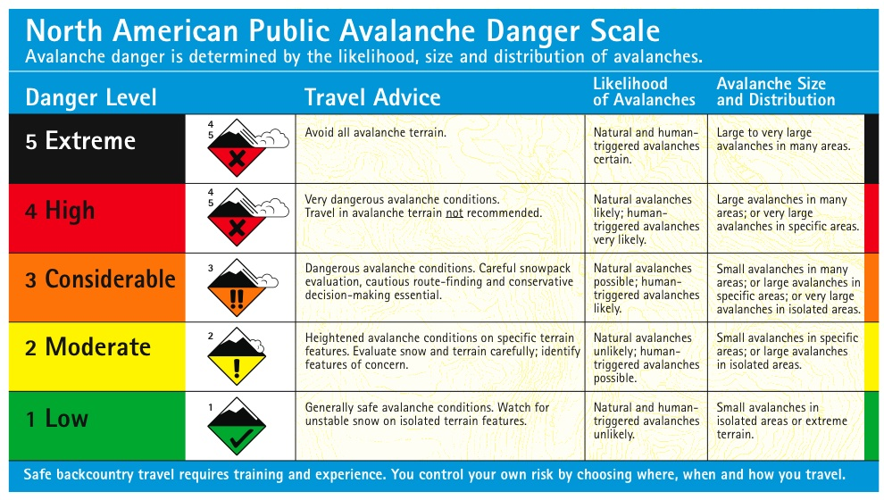 North American Avalanche Danger Scale